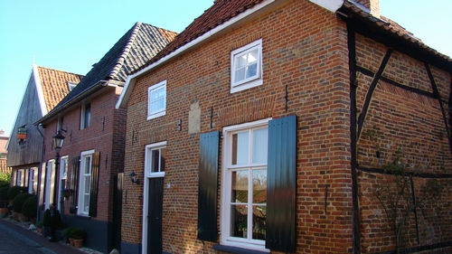 Monumental house in Bredevoort